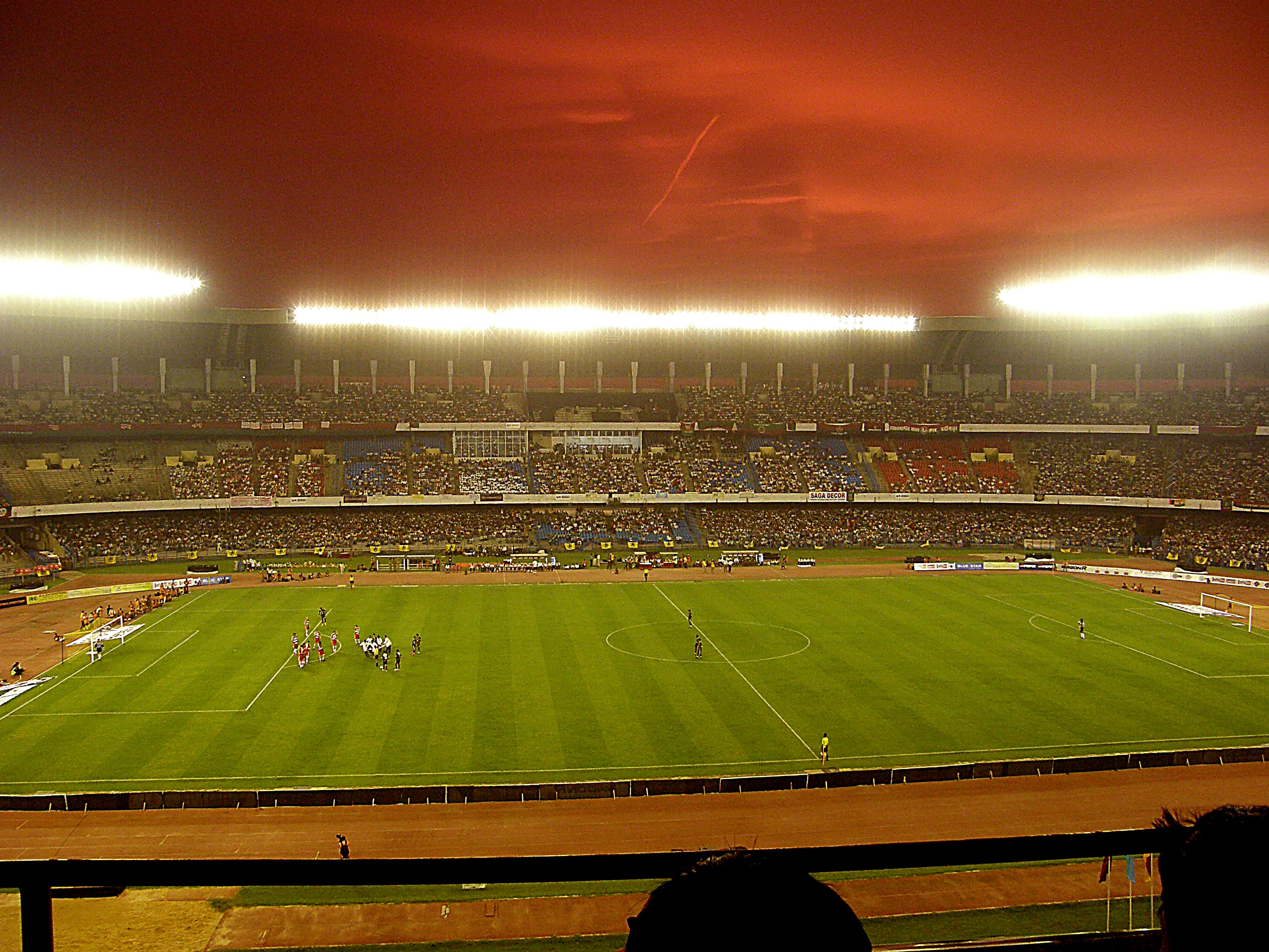 Picture of Salt Lake Stadium in Inda - Yuva Bharati Krirangan , Kolkata ( Calcutta ). Picture was taken on evening of 27th May, 2008. The Football Match was between Bayern Munich vs. Mohun Bagan. It is known as the farewell match of German Goal Keeper Oliver Kahn